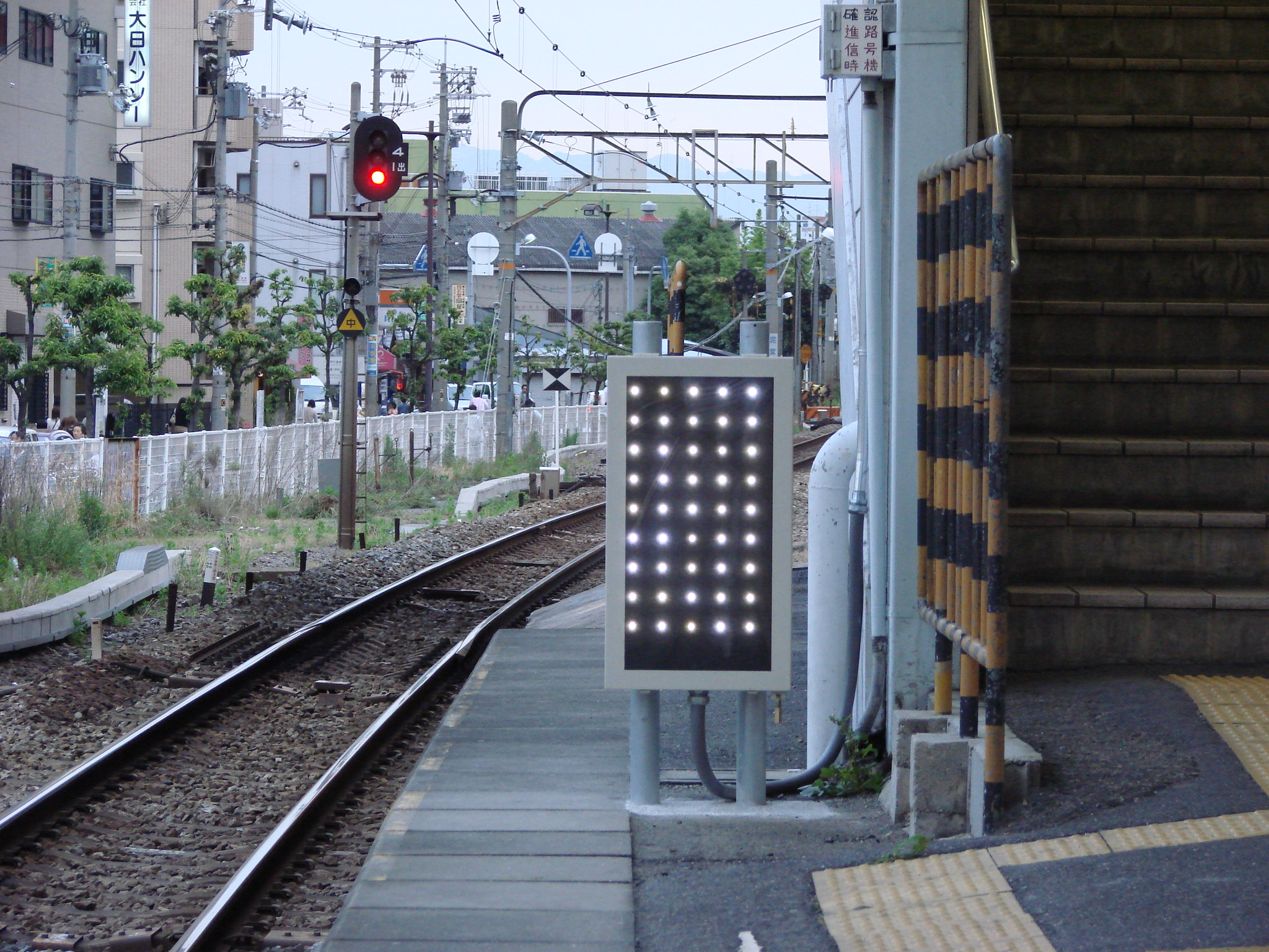 TC-PAC device at Hirano Station